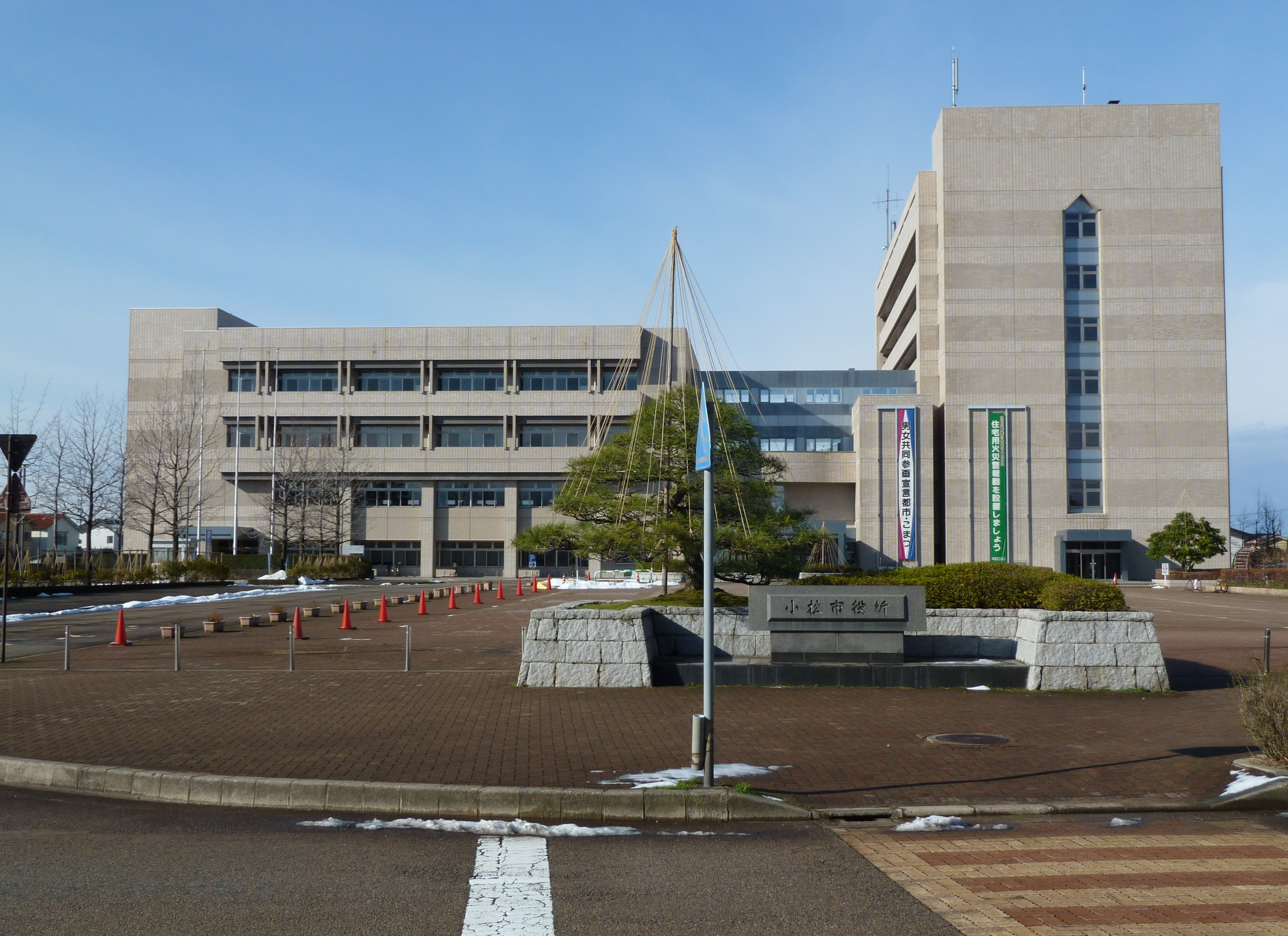 小松市役所